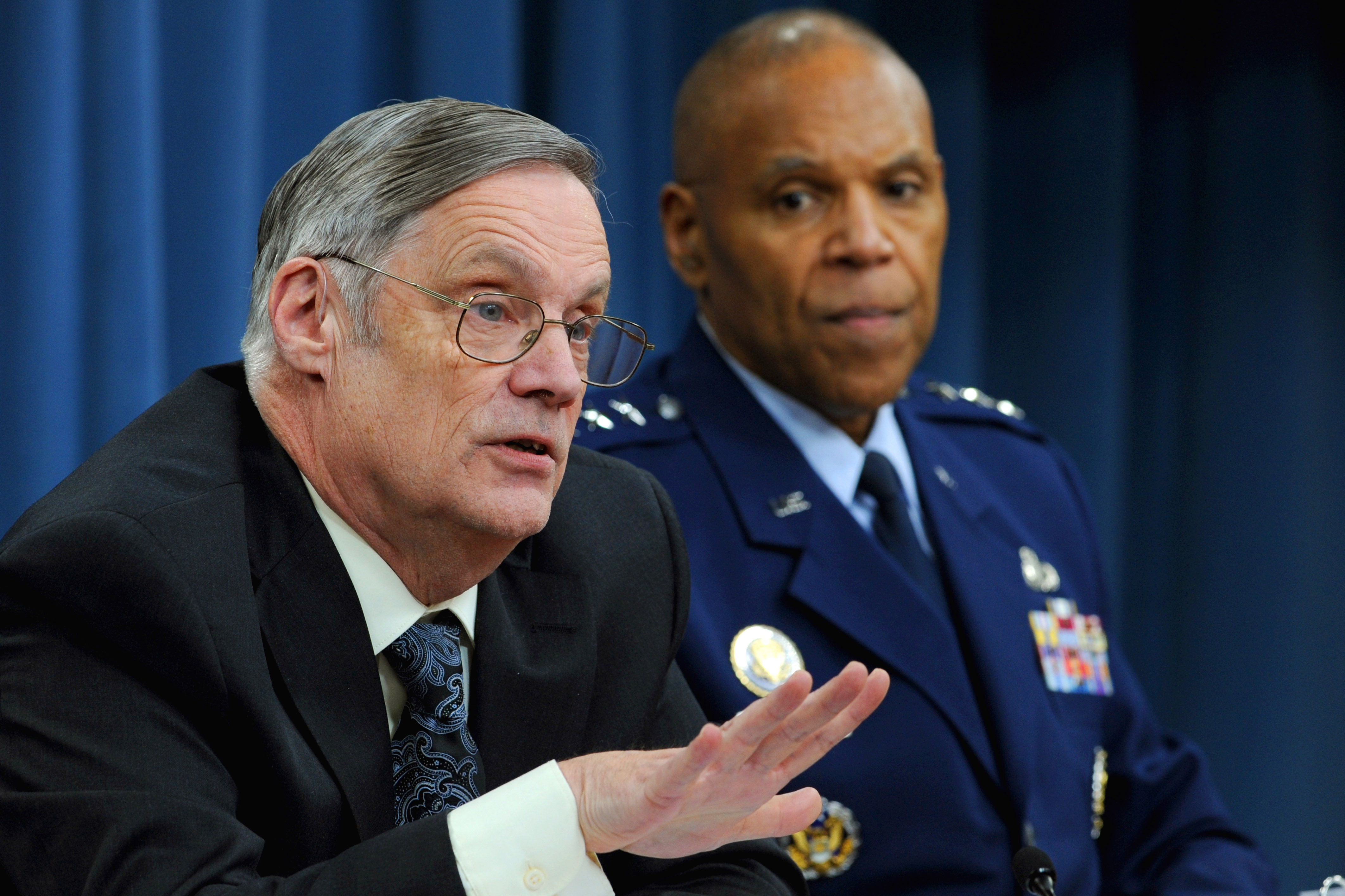 Under Secretary of Defense for Comptroller Robert Hale in joined by Lt. Gen. Larry Spencer to represent the Chairman of the Joint Chiefs of Staff and go into some detail about the specifics of the Department of Defense FY 2012 budget submission during the annual Pentagon budget briefing on Feb. 14, 2011.